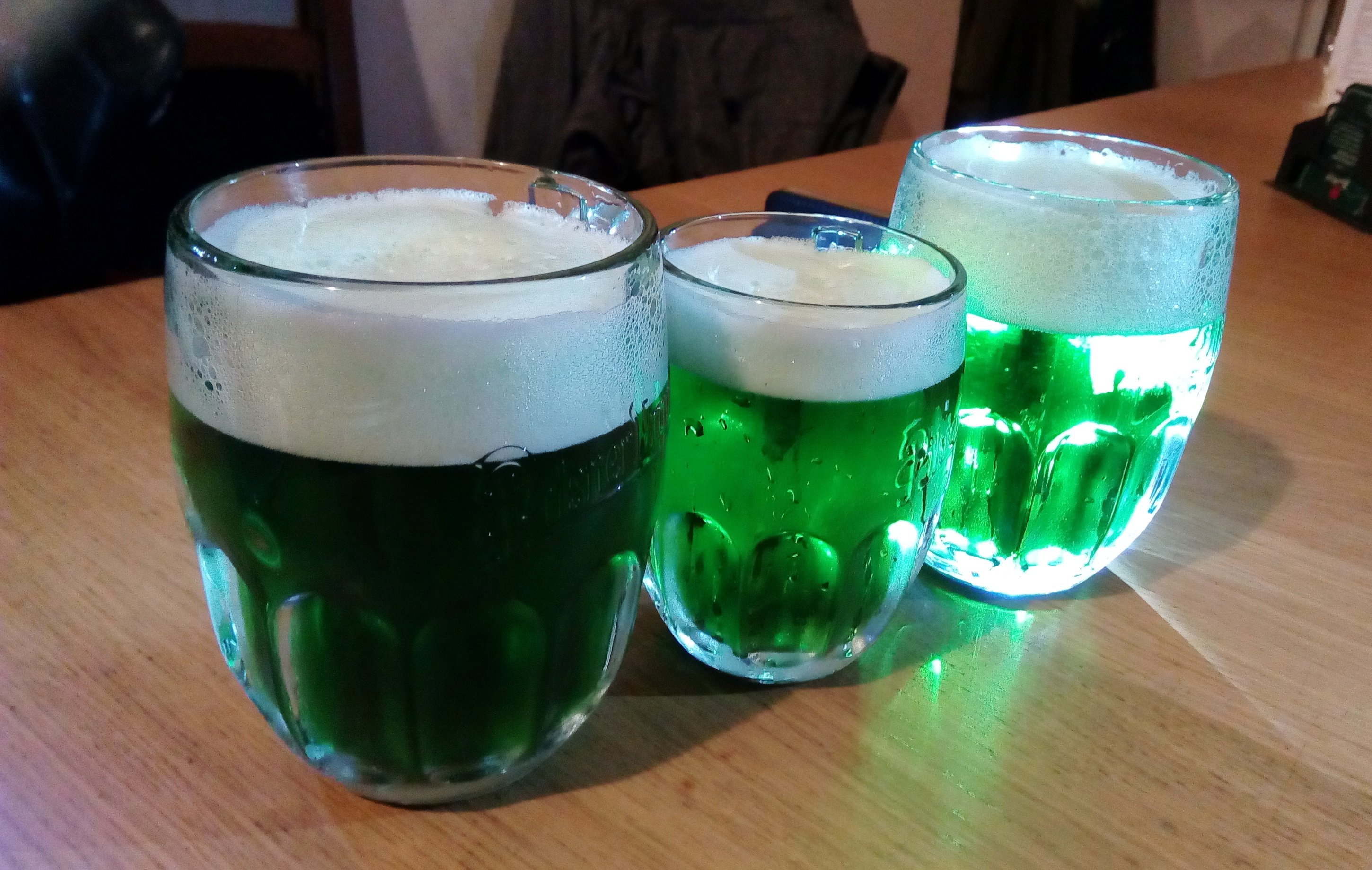 Green beer served in many Czech pubs on Maundy Thursday as in Czech, the day is called "Green Thursday".